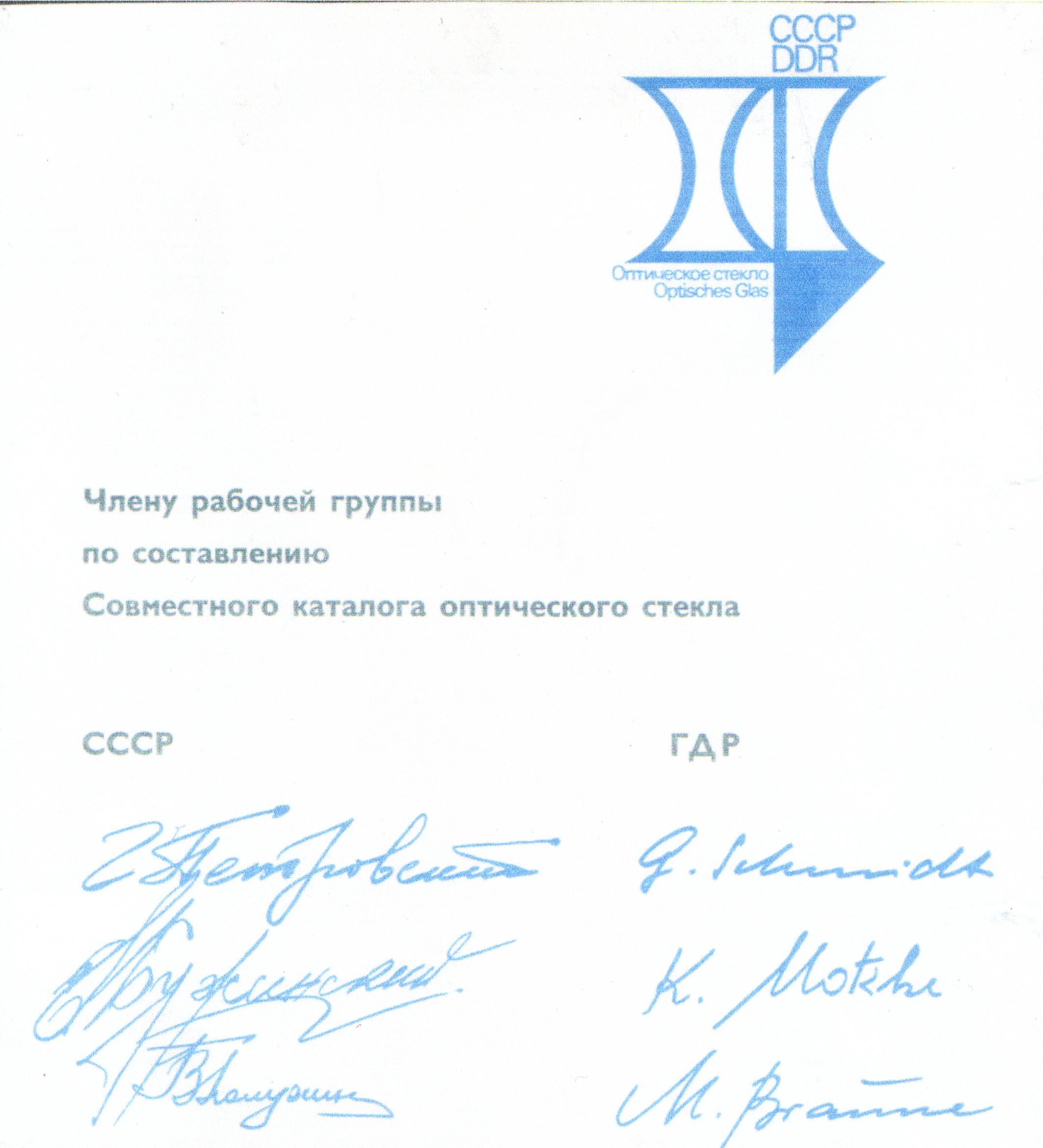 Front page of the Optical glass USSR-DDR catalog, with names and signatures of the participants. (CCCP/DDR, Optisches Glas Catalog)(Jena-er Glass)